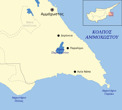 Map of the Famagusta area in Cyprus, greek labels.